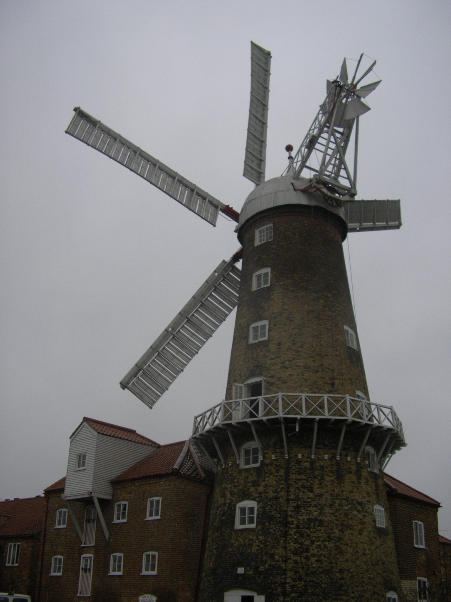 Maud Foster Windmill in Boston, Lincolnshire